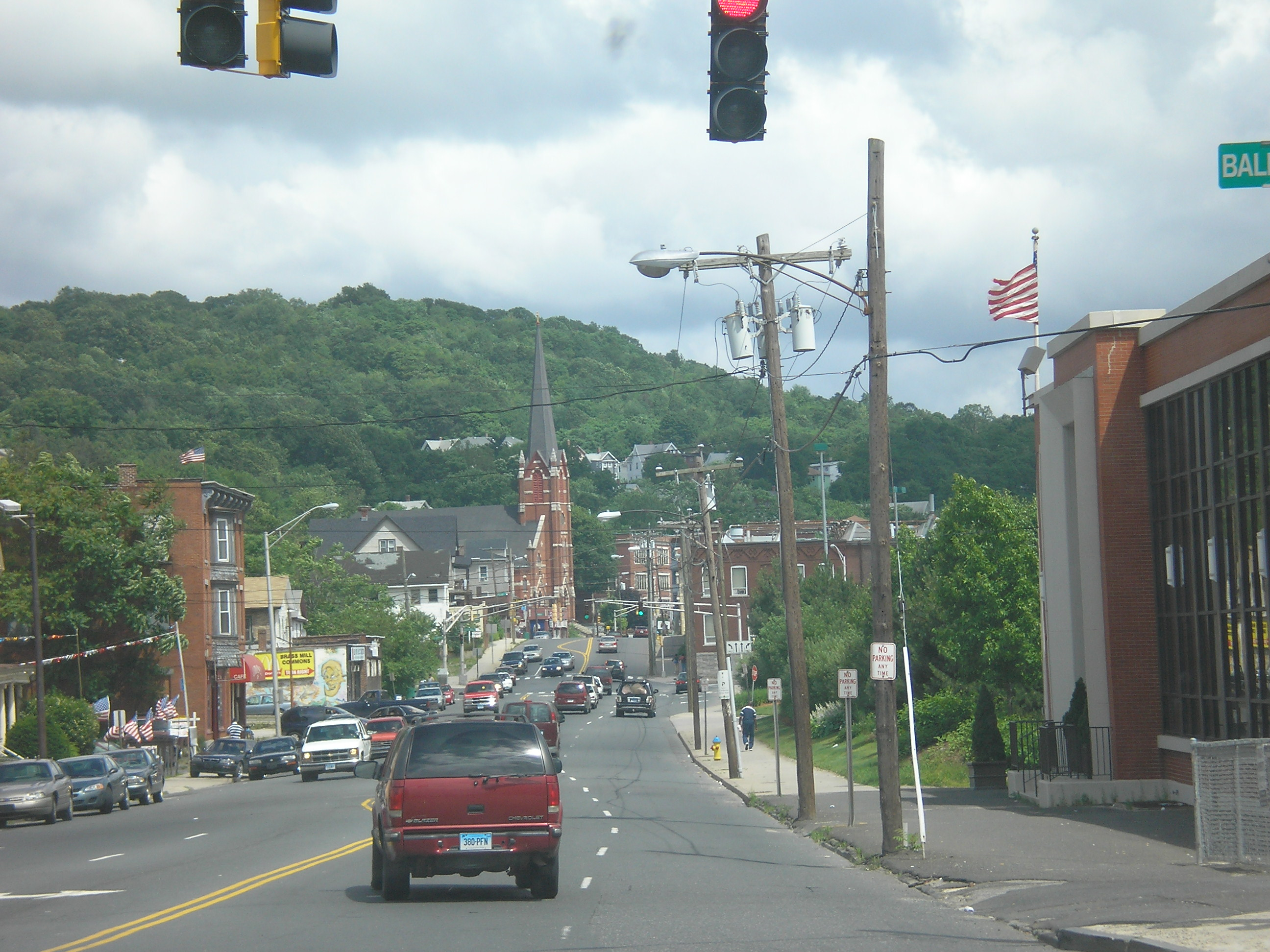 A scene of the Connecticut town of Waterbury, from one of its main streets.